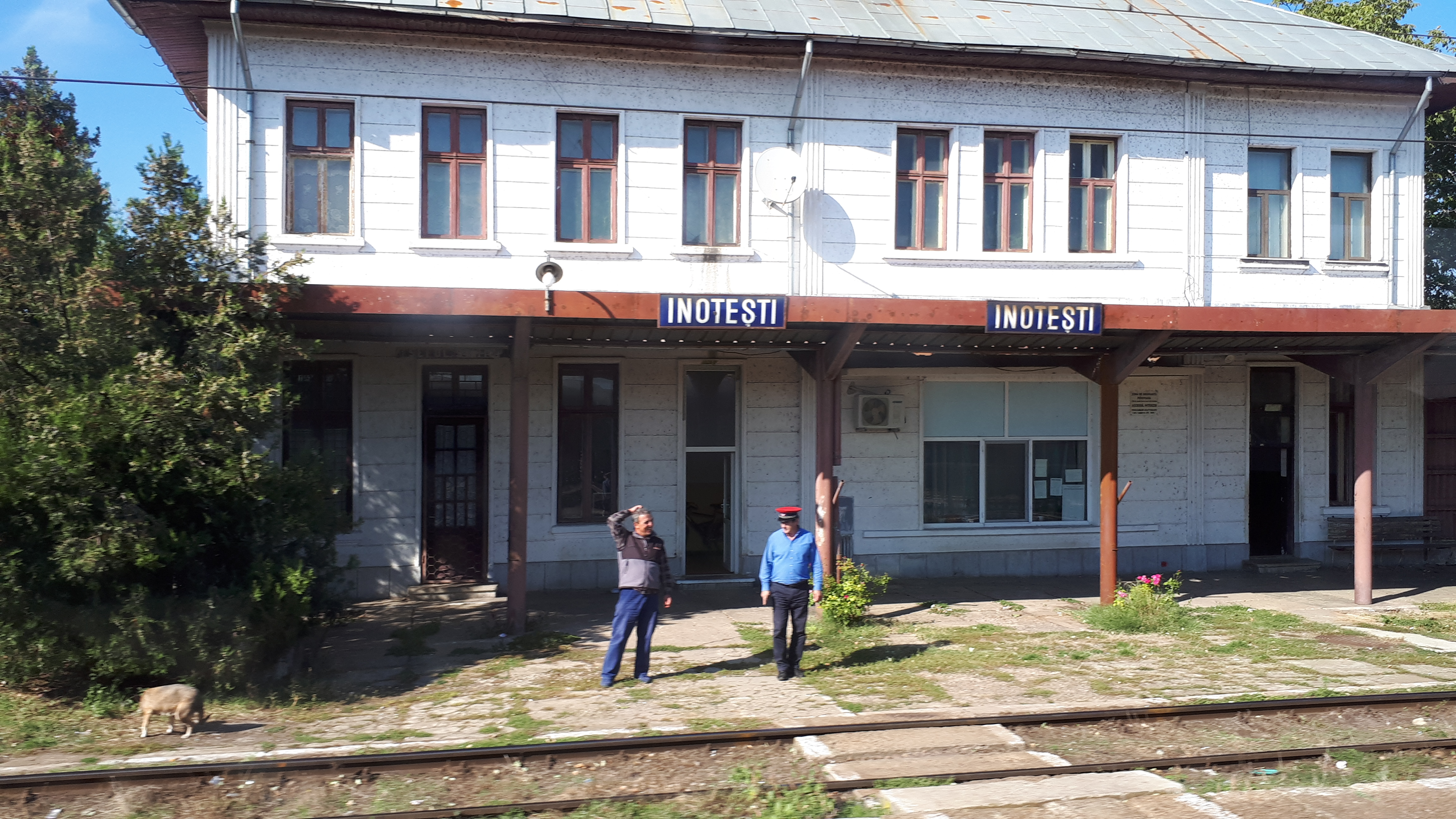 Inotesti train station, Romania